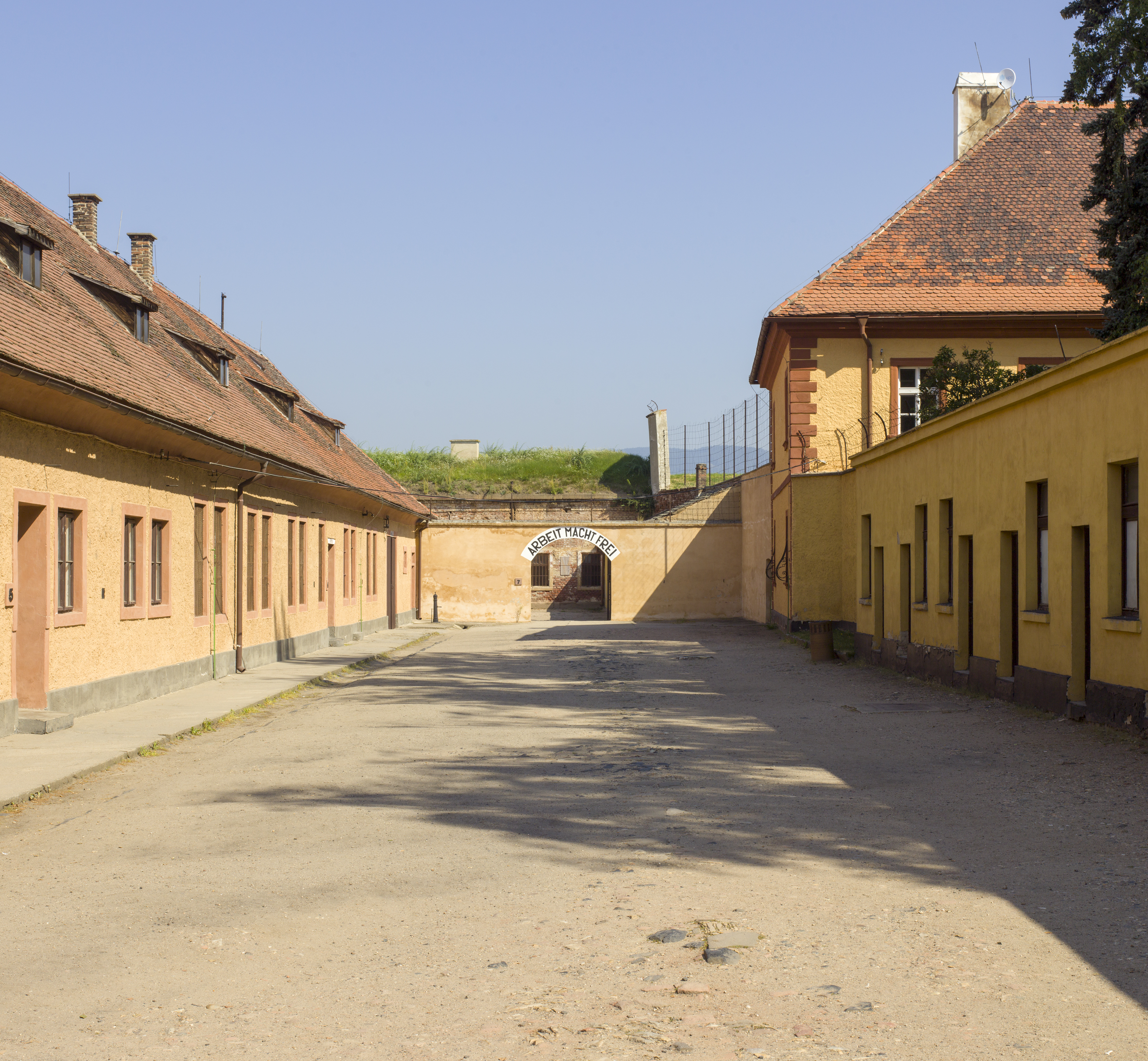 Theresienstadt concentration camp entrance pathway to archway with the phrase Arbeit macht frei work makes (you) free, placed over the entrance in a number of Nazi concentration camps.